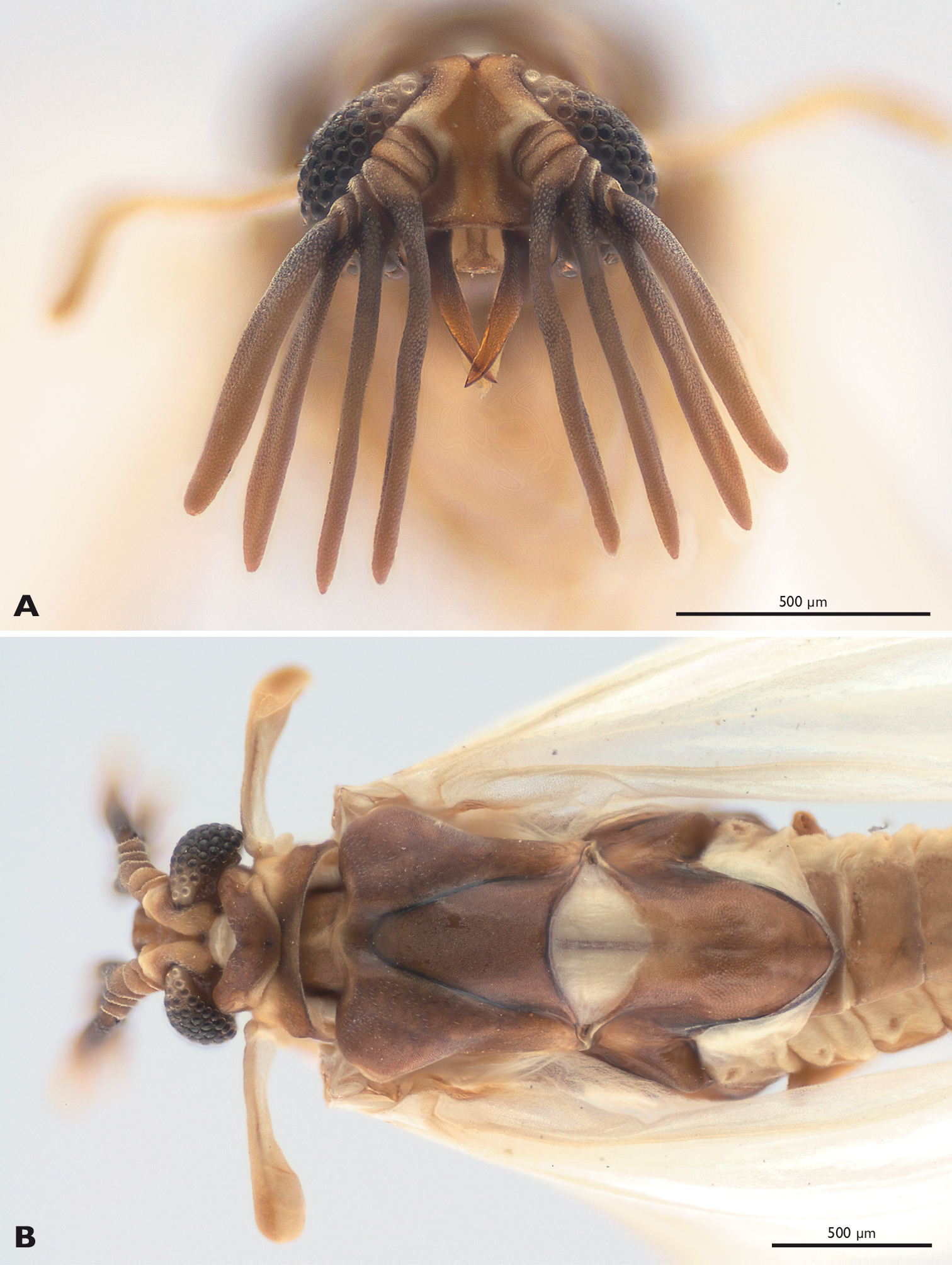 Mengenilla moldrzyki sp. n. ♂ A Head frontal view B Head, thorax and anterior part of abdomen, dorsal view; photomicrograph.